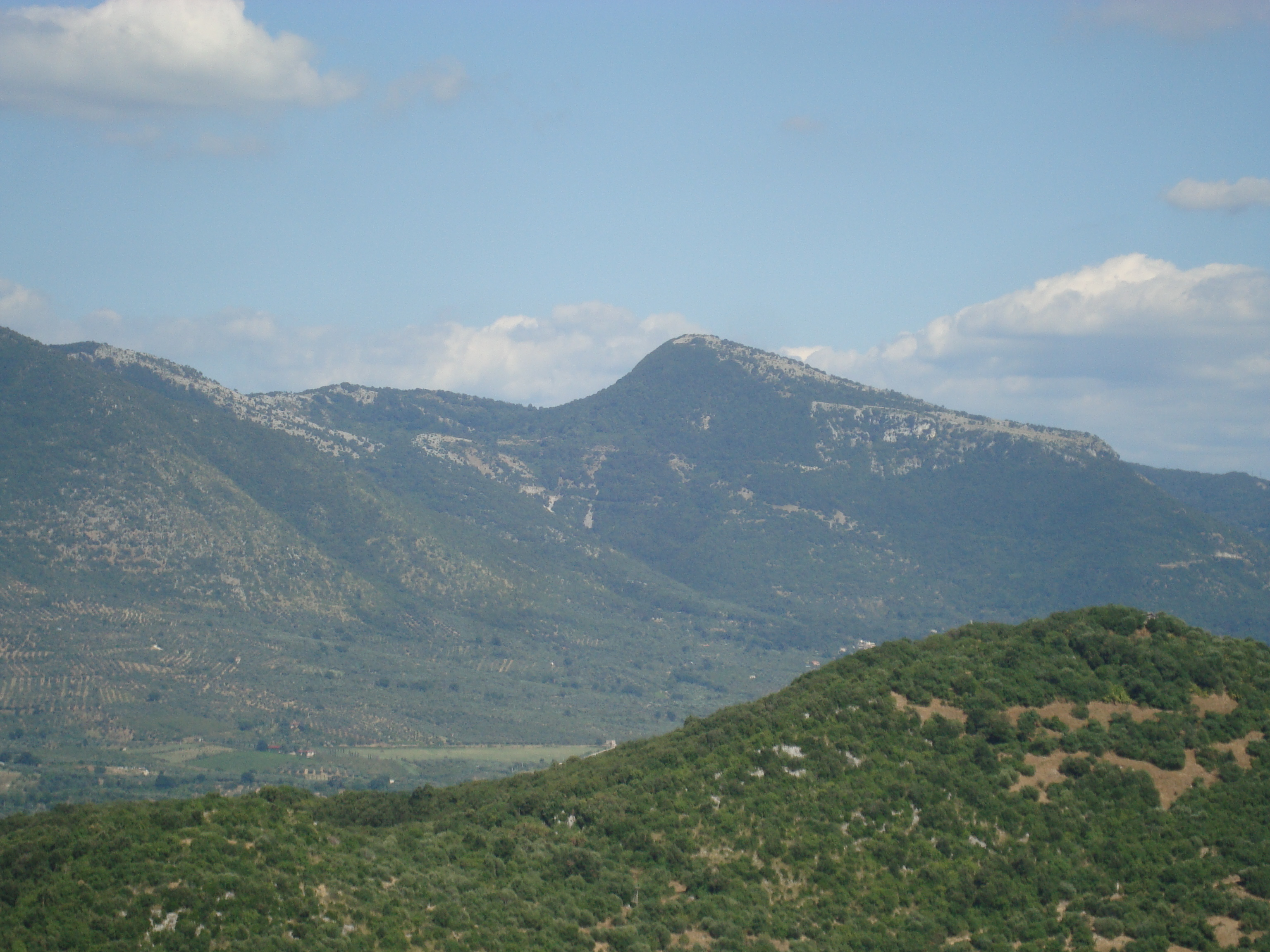 View of the Lucretilians Mounts from Sant'Angelo Romano, Italy. The summit is Monte Morra at 1036 meters.